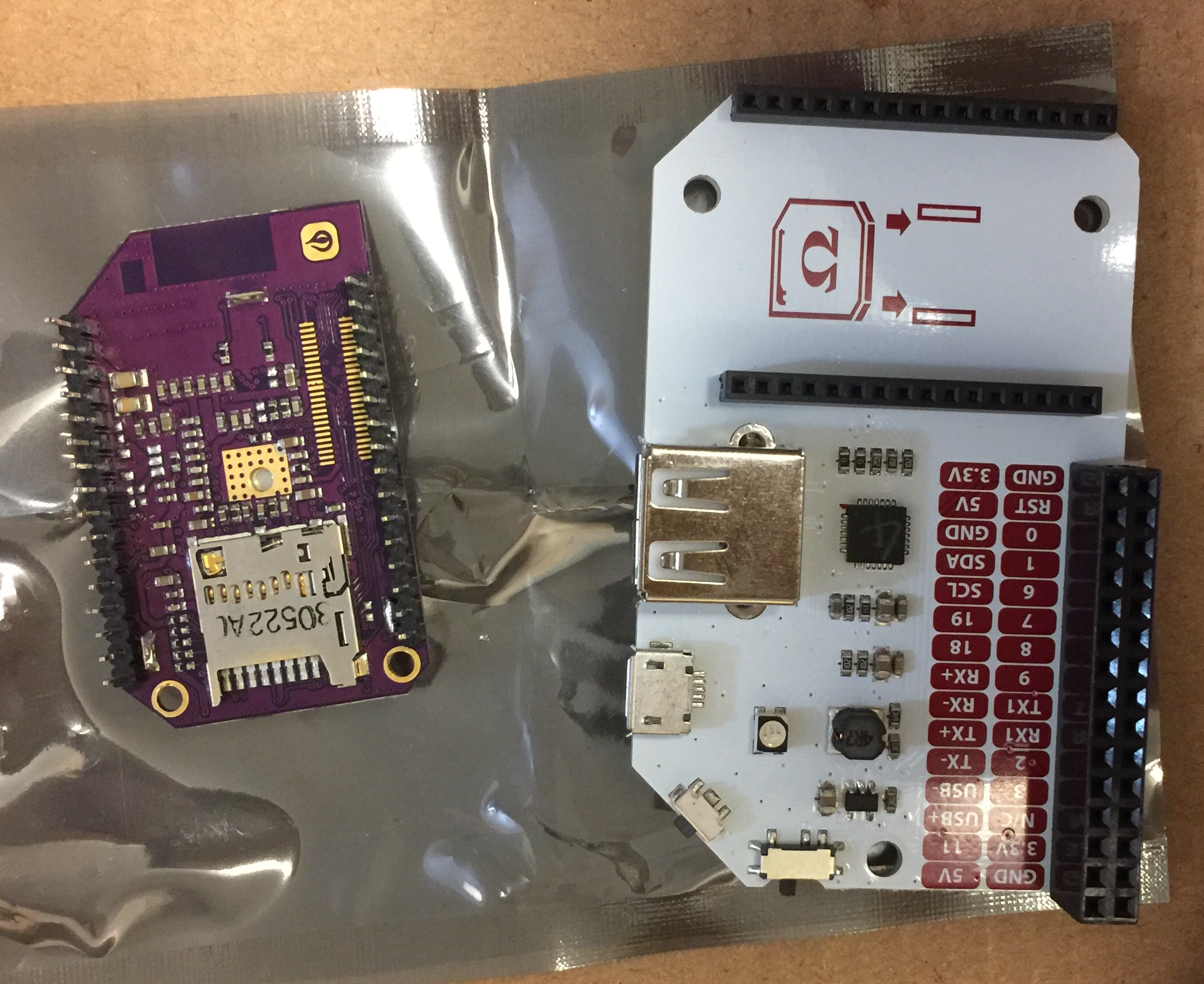 Omega2+ single computer from Onion with its expansion dock